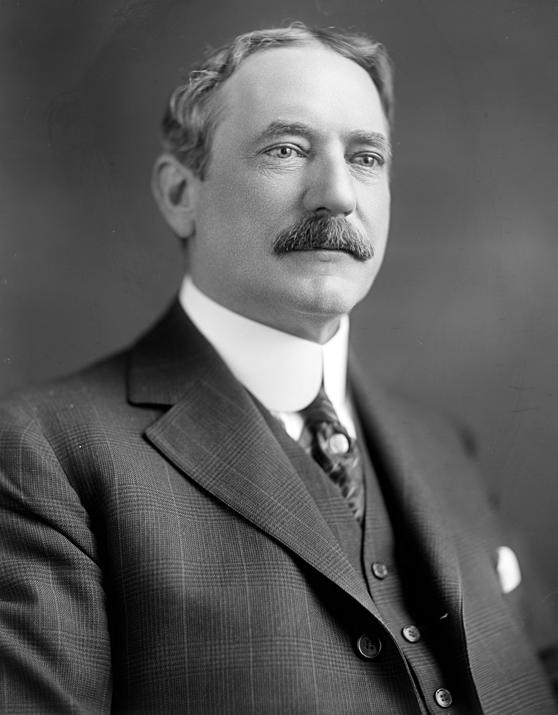 John R. Ramsey, US Representative from New Jersey